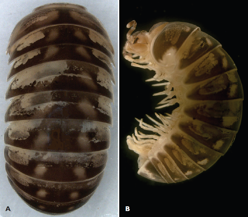 Glomeris punica Attems, 1900, ♂ from Tunisia, Amdoun; A, B, habitus, dorsal and lateral views, respectively.